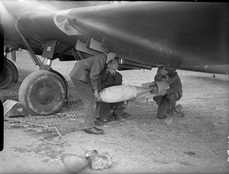 Royal Air Force- France, 1939-1940. Armourers load a 250-lb GP bomb into the outboard port wing-cell of a Fairey Battle of No. 103 Squadron RAF at Betheniville.